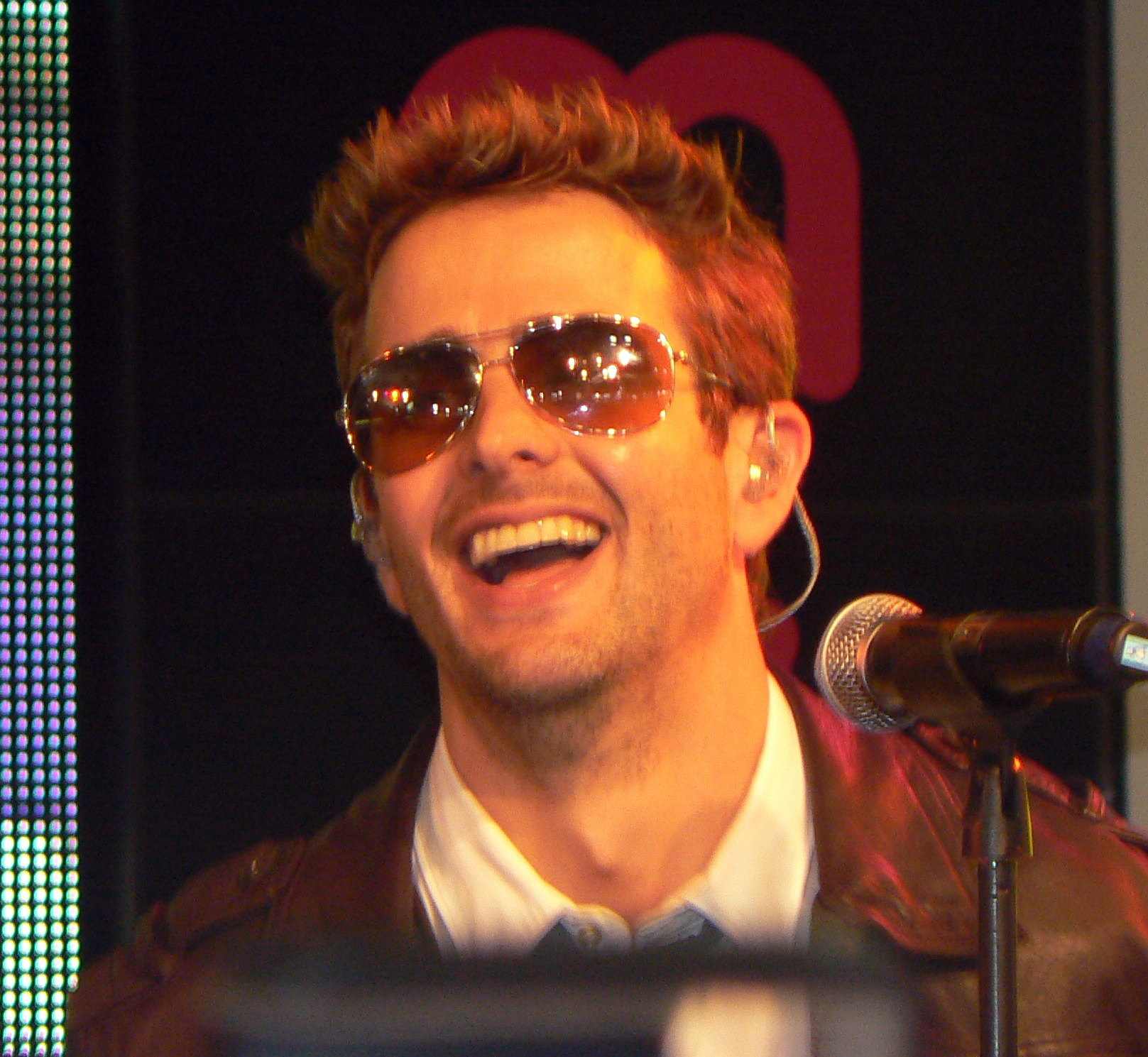 Photo of Joe McIntyre, taken during the signing at HMV Record Store in London, Oxford Street, on September 8th 2008. Photo by Isabelle Boeijen, The Netherlands